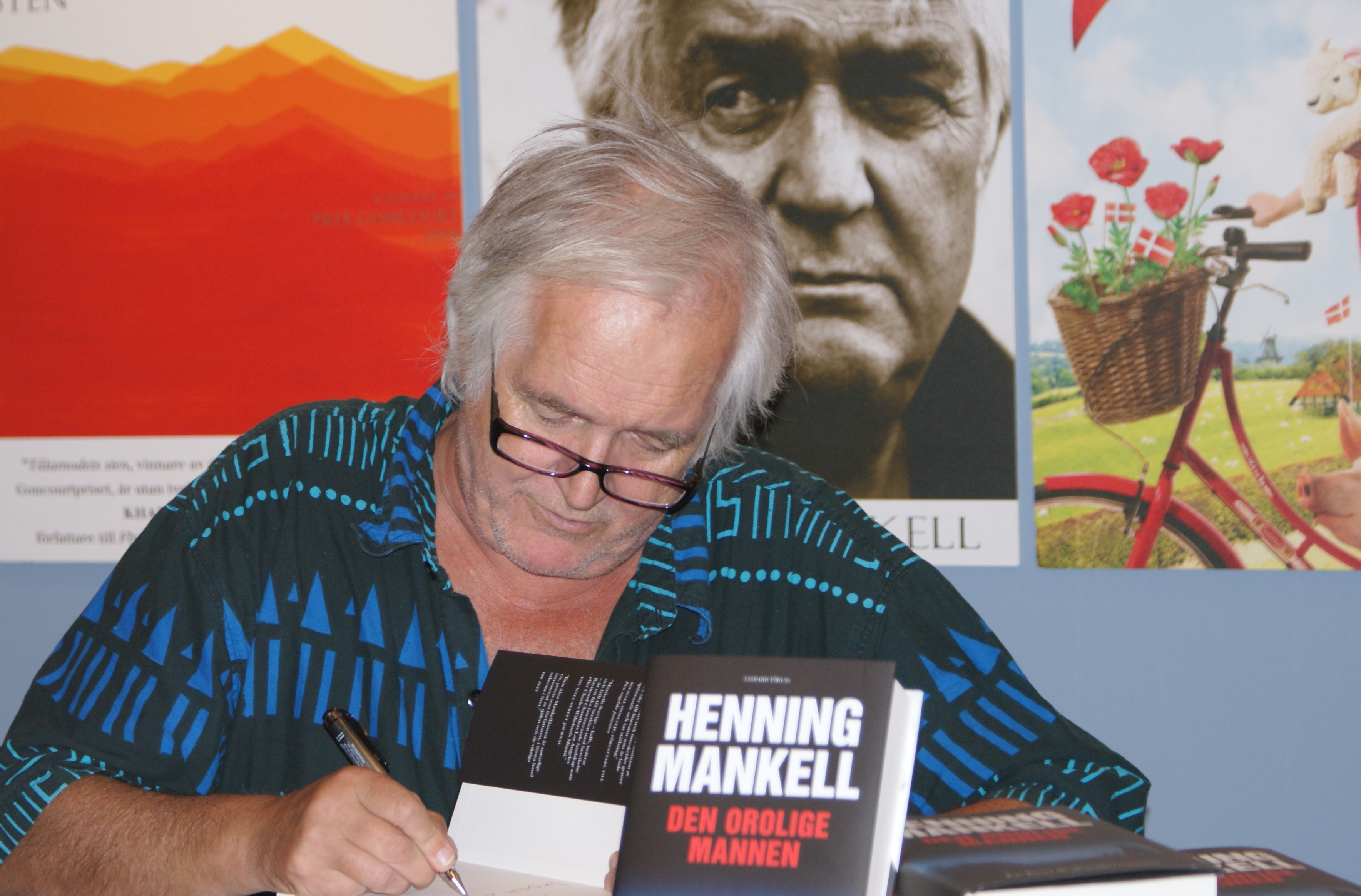 At the bookfair in Gothenburg 2009.